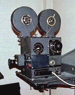 An animation camera. Photo 1999 by J-E Nyström. Released to Public Domain.